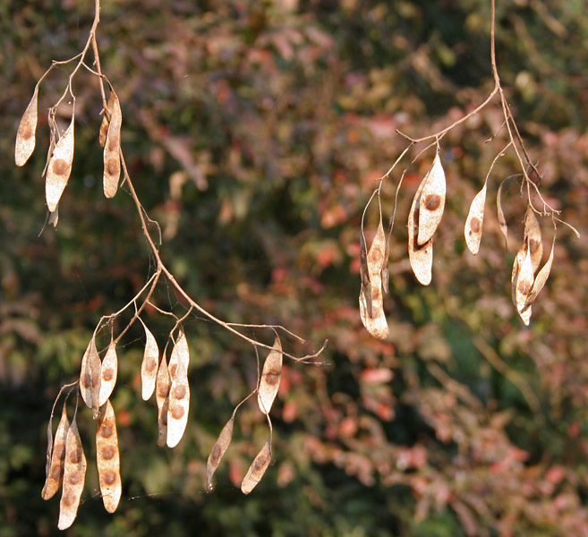 Takoli Dalbergia lanceolaria in Kolkata, West Bengal, India.